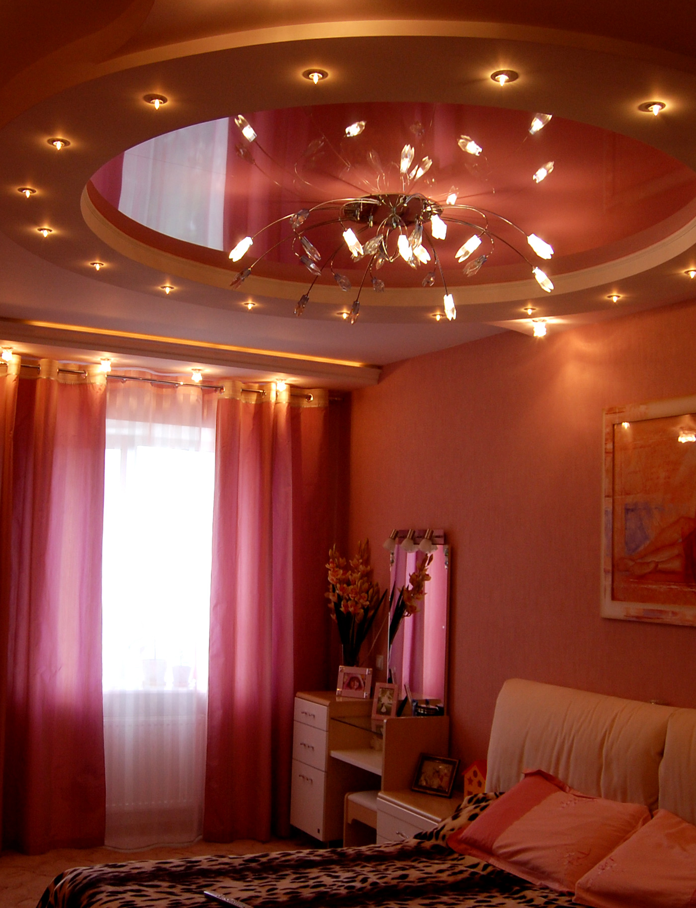 Streched ceiling in the bedroom